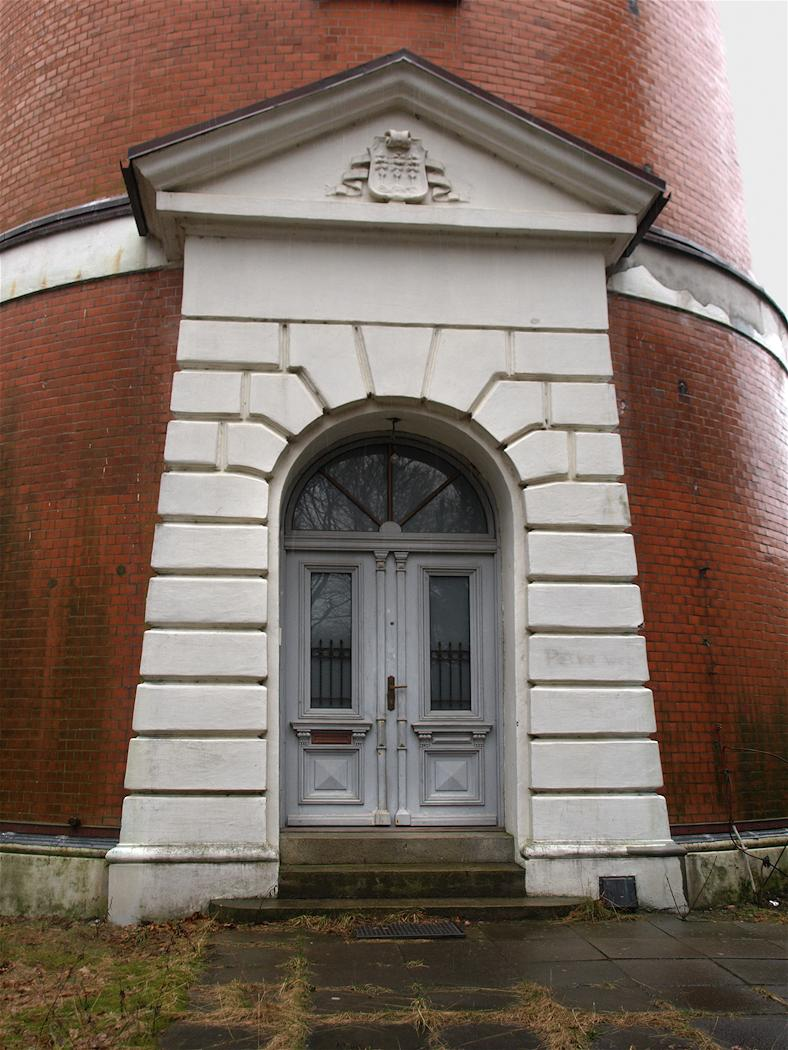 Hamburg-Bergedorf (Germany), former water tower, entrance, photo 2010